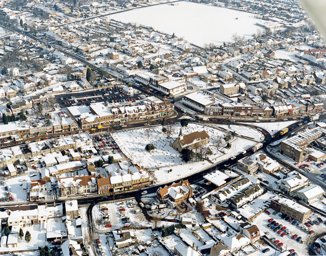 Aerial view of Hadleigh centre in the snow The church in the middle of the picture is St James-the-less. The large building below left of this is The Castle pub. Most of the buildings lining the major roads here are shops. The large white rectangle at the top is a school playing field, with the school to the right.